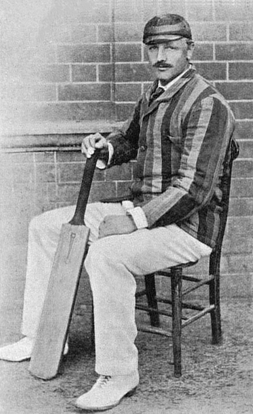 A scan of cricketer Charles de Trafford taken from a book titled Famous Cricketers dated 1896